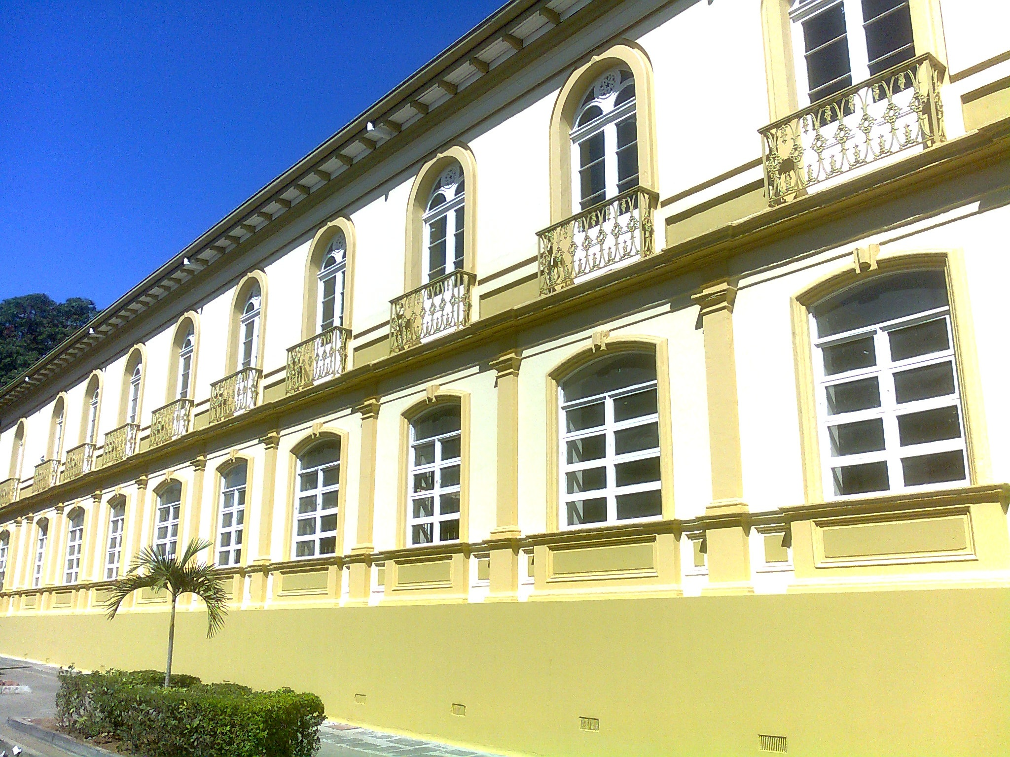 Boulevar Carlos Luis Fallas